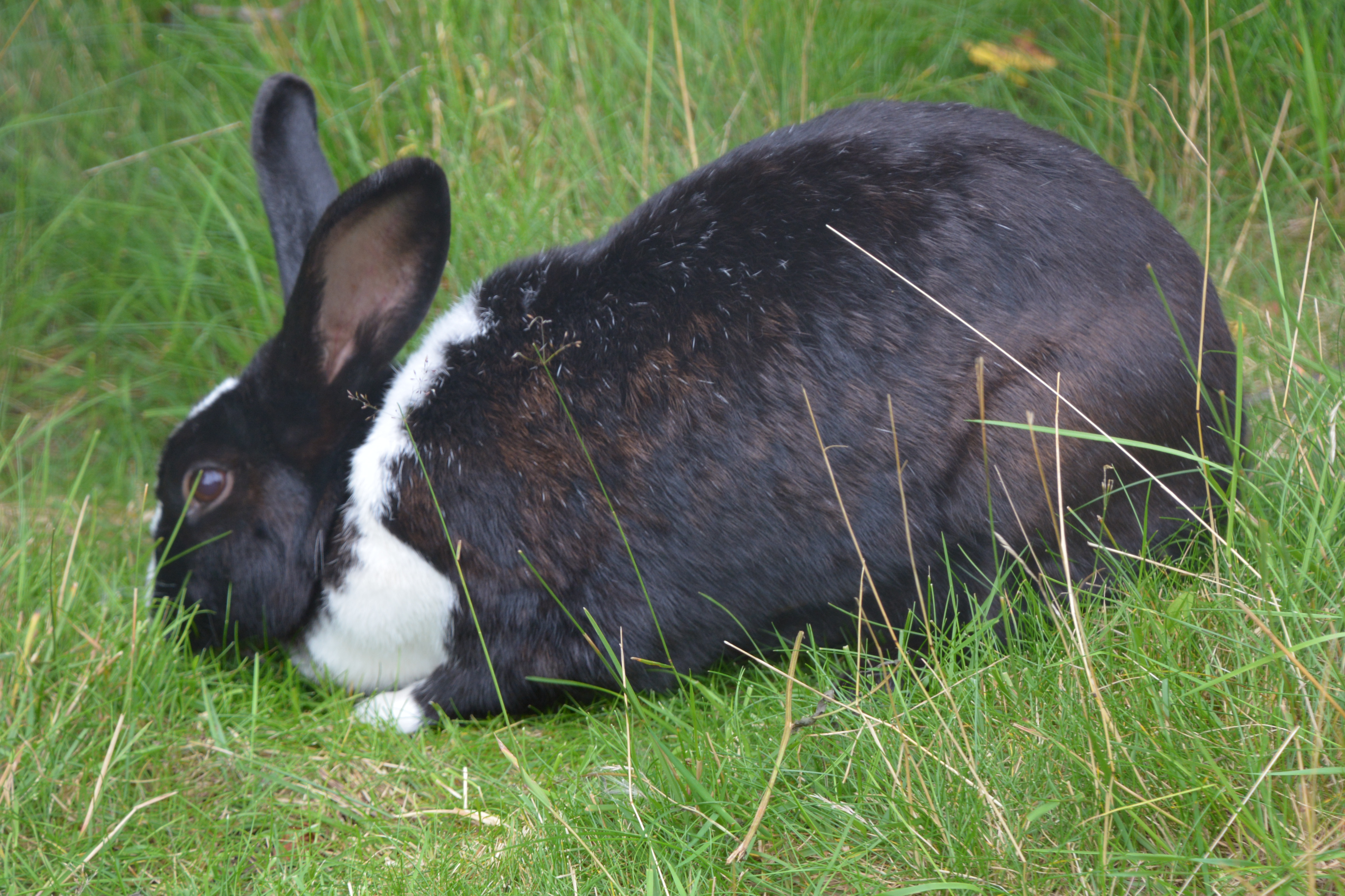 Mellerudskanin